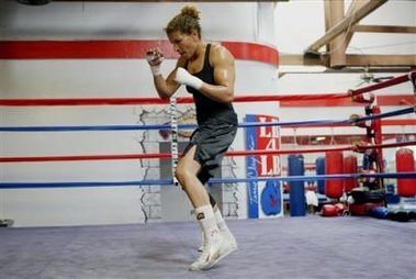 Lucia Rijker in training, begin 2005